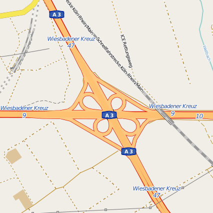 Interchange Wiesbaden